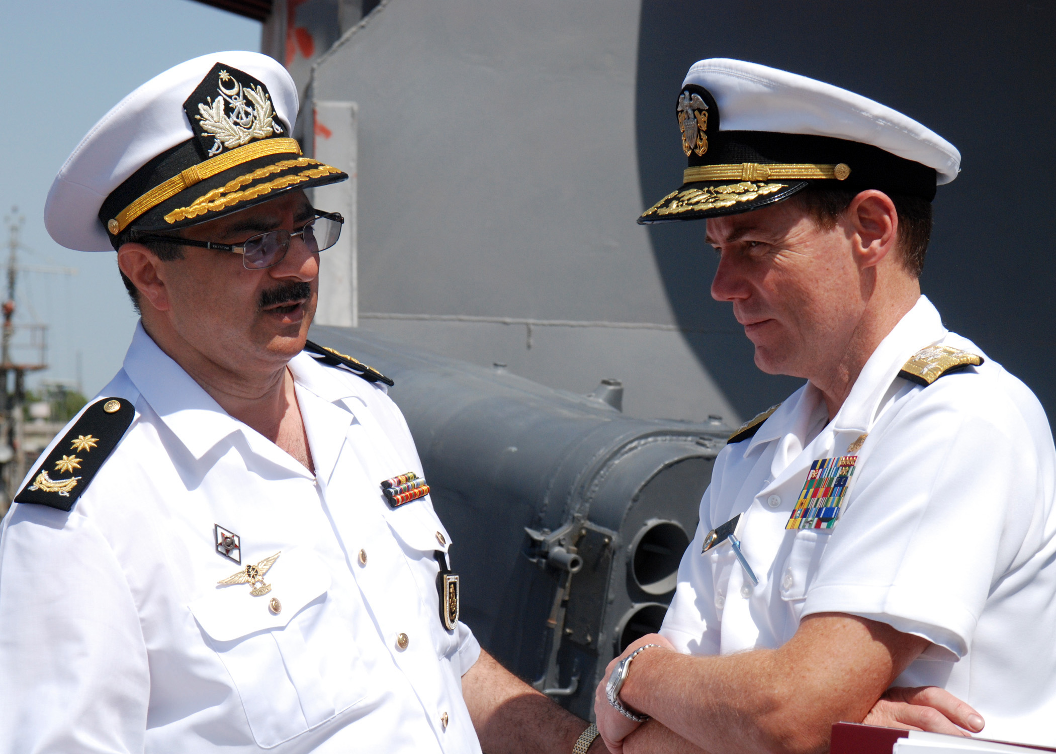 Vice Adm. Kevin Cosgriff, commander, U.S. Naval Forces Central Command, meets with Vice Adm. Shahin Sultanov, the chief of Azerbaijan Navy aboard a ship in Baku to discuss ongoing initiatives to build information and experience to improve regional and maritime security.